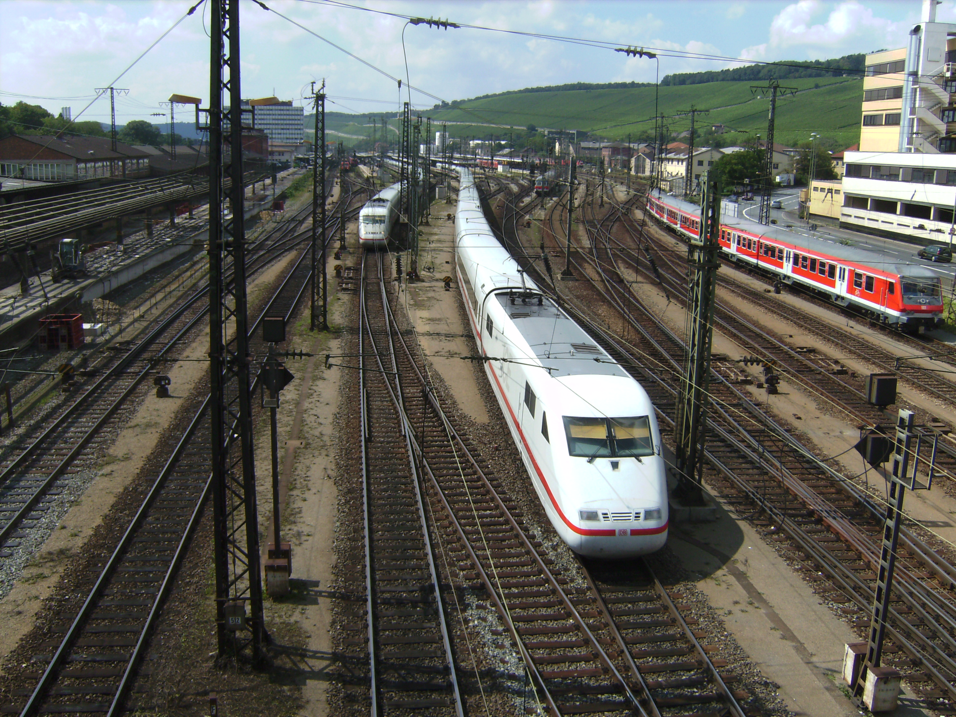 Two ICE-trains meet in Würzburg main station